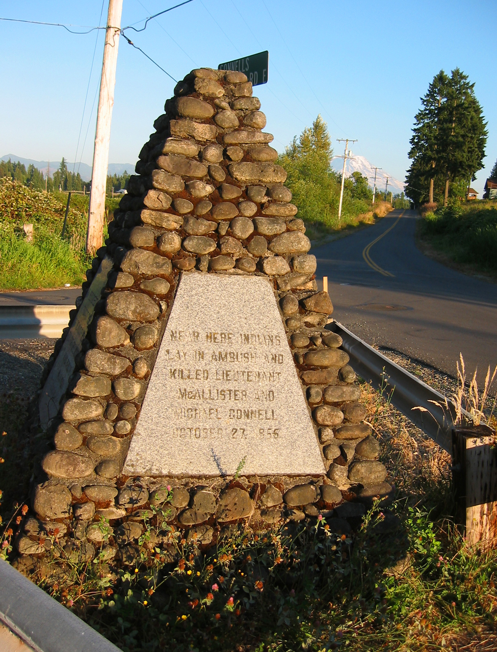 Memorial marker at the site of the Battle of Connell's Prairie (1855) in the Yakima War (Washington state)